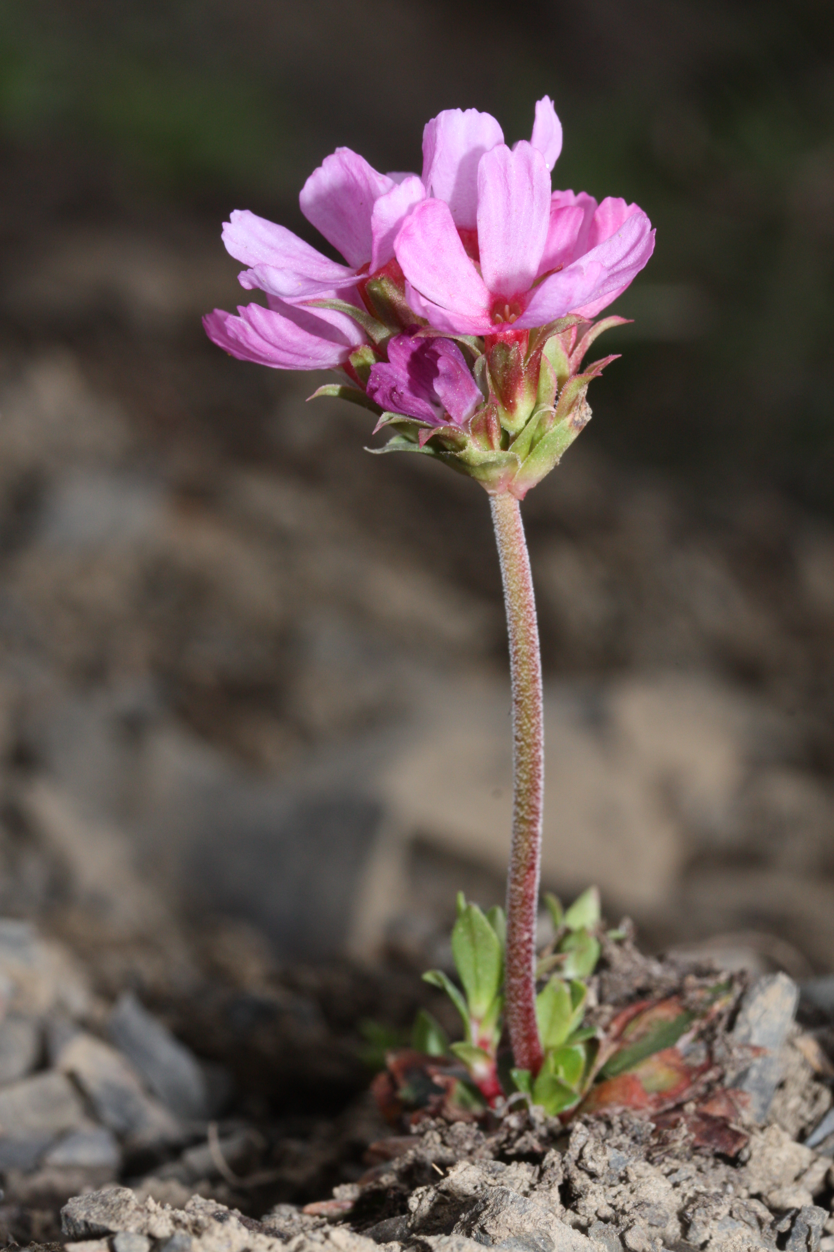 Smooth Douglasia